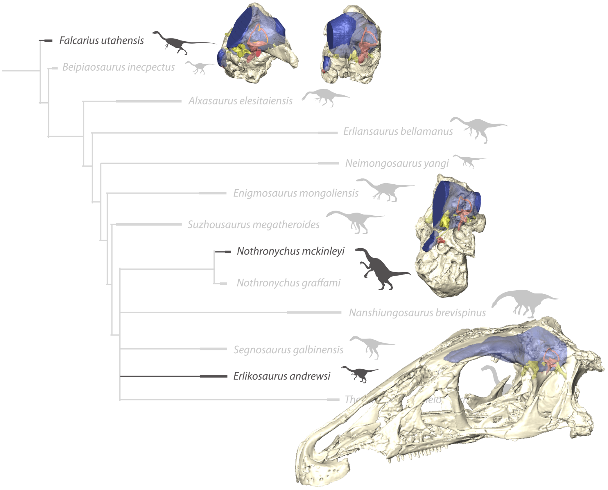 In-situ endocranial elements of the described therizinosaurian taxa displayed in their phylogenetic context. Bone rendered transparent to reveal endocranial anatomy. (Phylogeny modified from Zanno 2010)